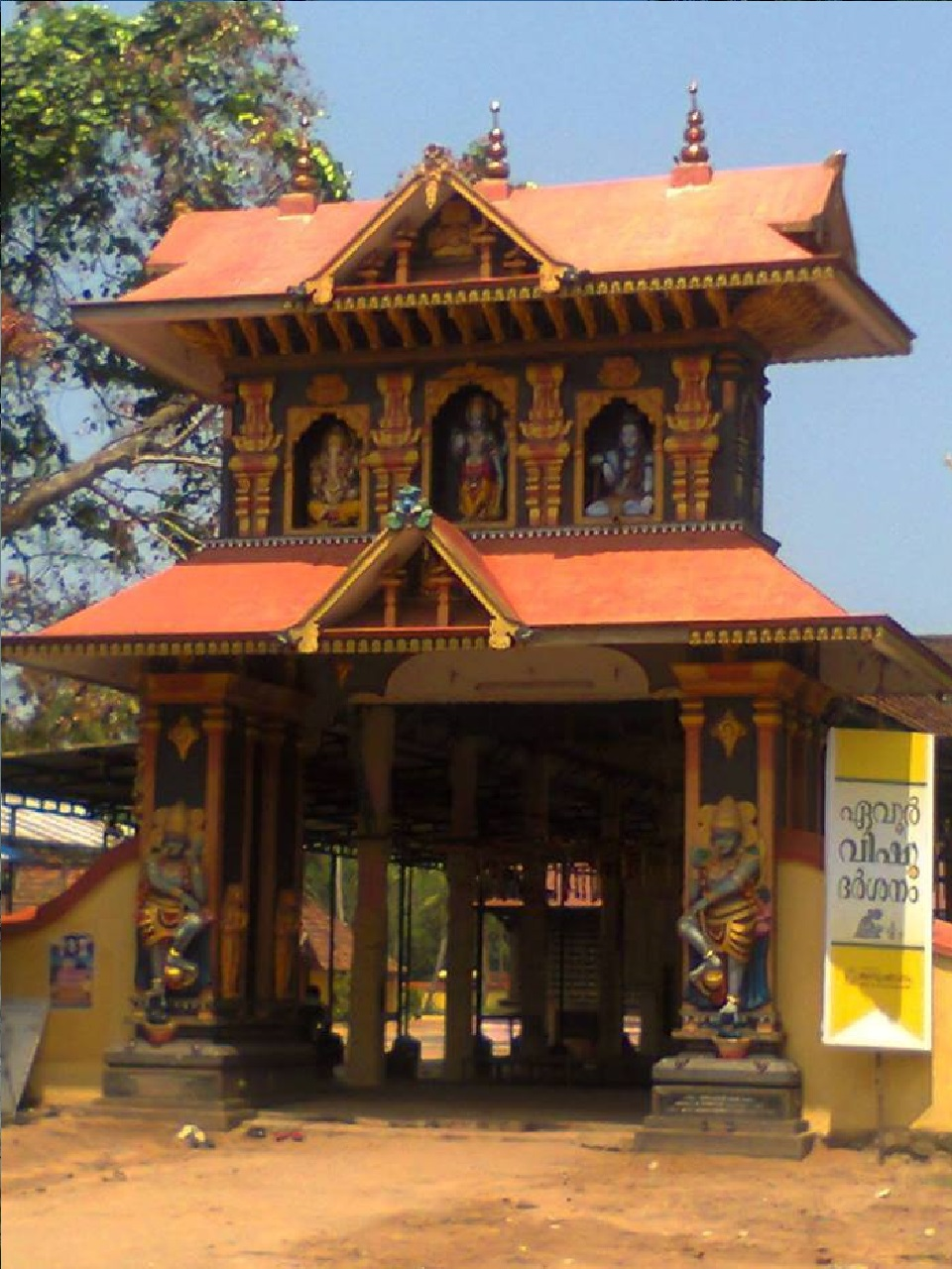 Evoor Sreekrishna Swami Temple